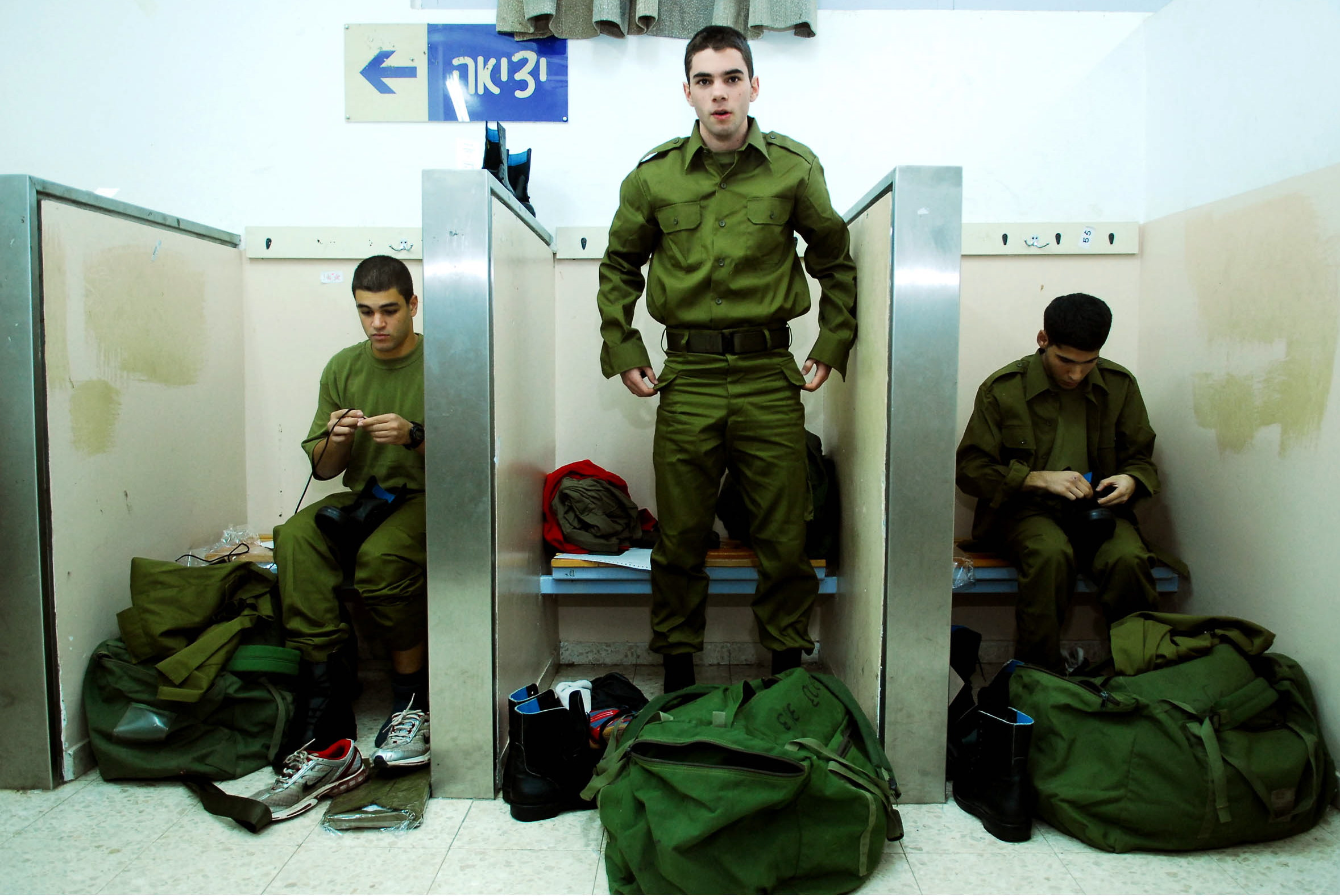 New combat soldiers try on their uniform for the first time. The soldiers are being recruited for the Givati Brigade and Field Intelligence Units. The soldiers have almost completed their induction process, which includes detailed background checks, having their photo taken, receiving equipment and more. After they have completed the process they will begin their basic training.